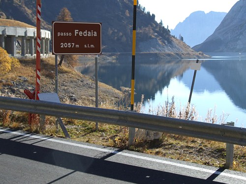 Passo Fedaiav (western coin of the Lake) picture taken by user Idéfix october 31, 2006